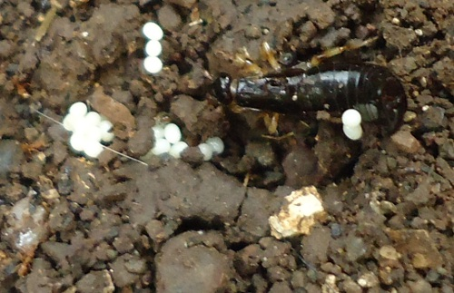 Female earwig guarding eggs (Philippines)